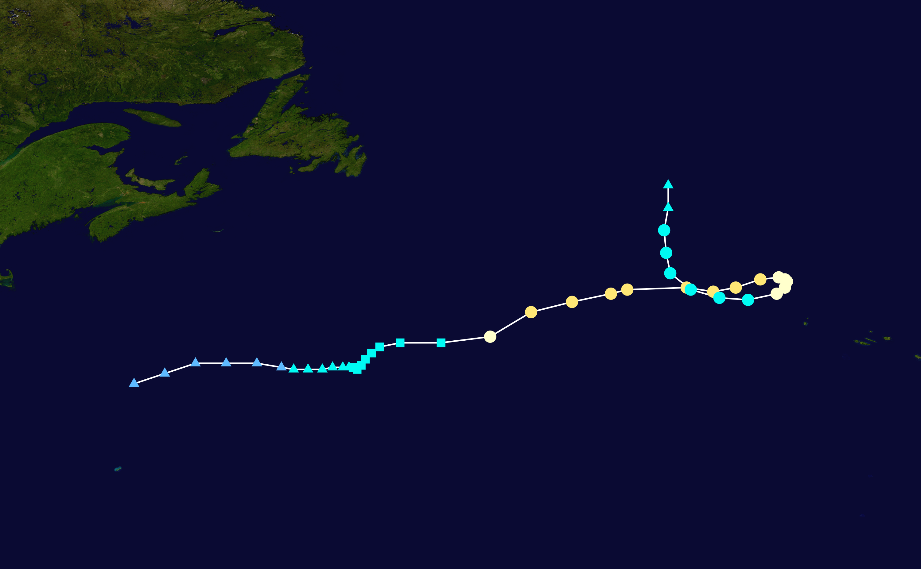 Hurricane Betty (1972) track. Uses the color scheme from the Saffir-Simpson Hurricane Scale.